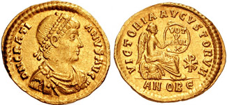 GRATIAN. 367-383 AD. AV Solidus (4.40 gm). Antioch mint. Struck 372 AD. D N GRATI-ANVS AVG, pearl-diademed, draped, and cuirassed bust right VICTORIA AVGVSTORVM, Victory seated right, inscribing VOT/V/MVL/X on shield; christogram to right; ANOBE. RIC IX 21(c) var. (diadem and officina); Depeyrot 38/9. EF.